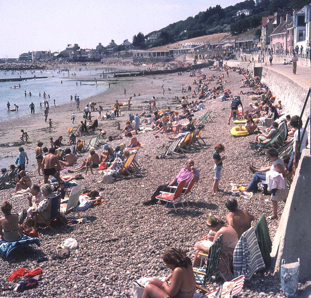 Lyme Regis Beach On a busy August afternoon the beach is crowded.